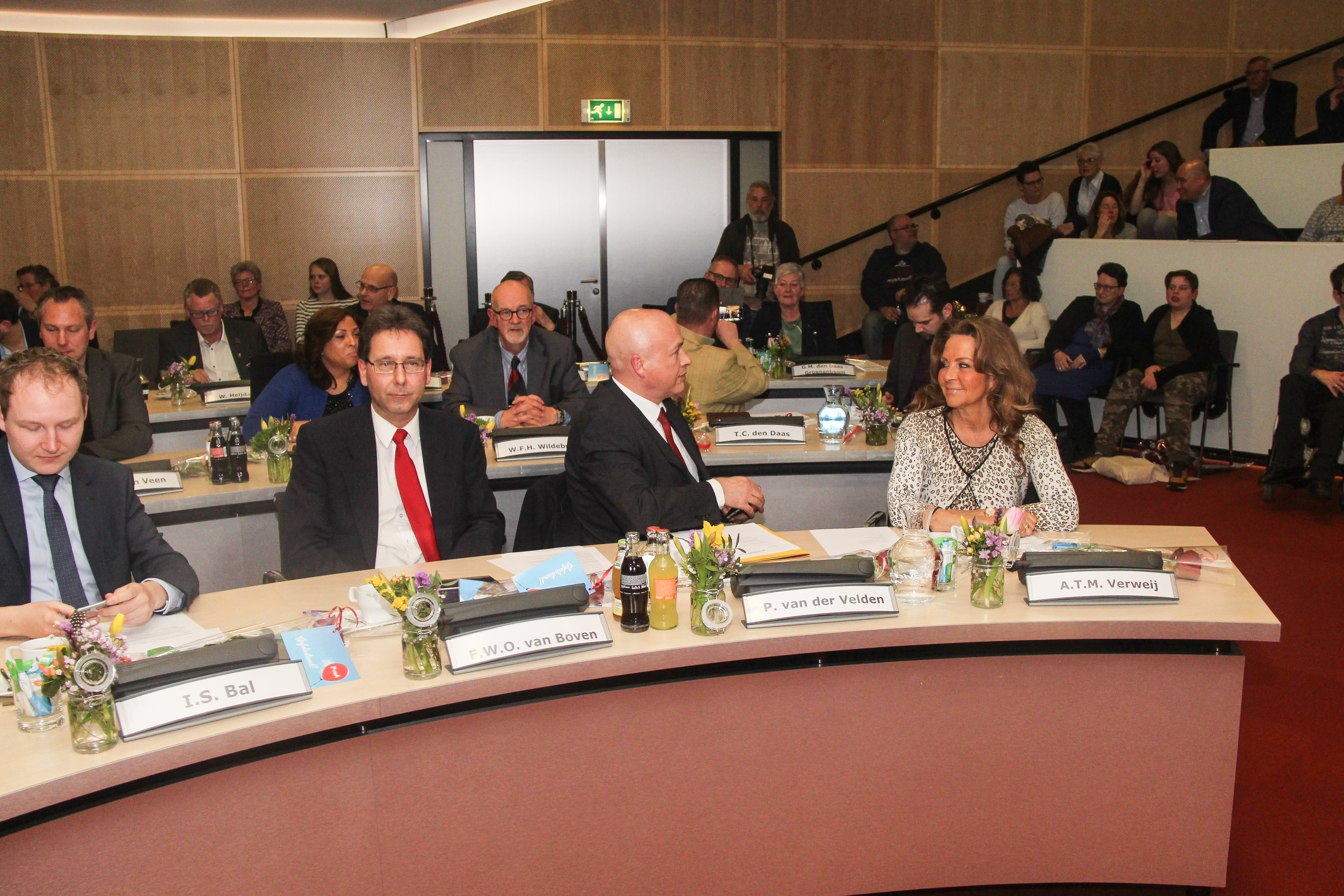 PVV Councillors in the new City Council Nissewaard